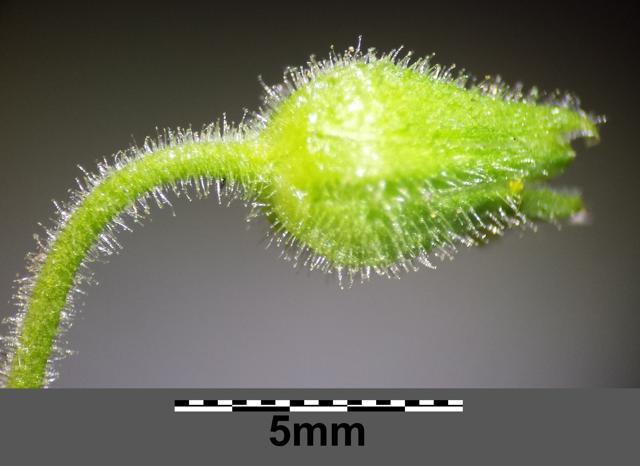 Pedicel and sepals with gland hairs Taxonym: Stellaria aquatica ss Fischer et al. EfÖLS 2008 ISBN 978-3-85474-187-9 Location: Rohrwald, district Korneuburg, Lower Austria - ca. 300 m a.s.l. Habitat: wet wood